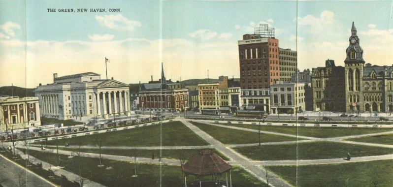 Picture of the New Haven Green looking northeast, from a "Souvenir Folder of New Haven". Captioned "The Green, New Haven, Conn."; eBay webpage shows picture of front of souvenir folder with September 2, 1919 postmark; creases in the picture visible; the picture appears to show three panels of an "8-panel view of 'THE GREEN'".